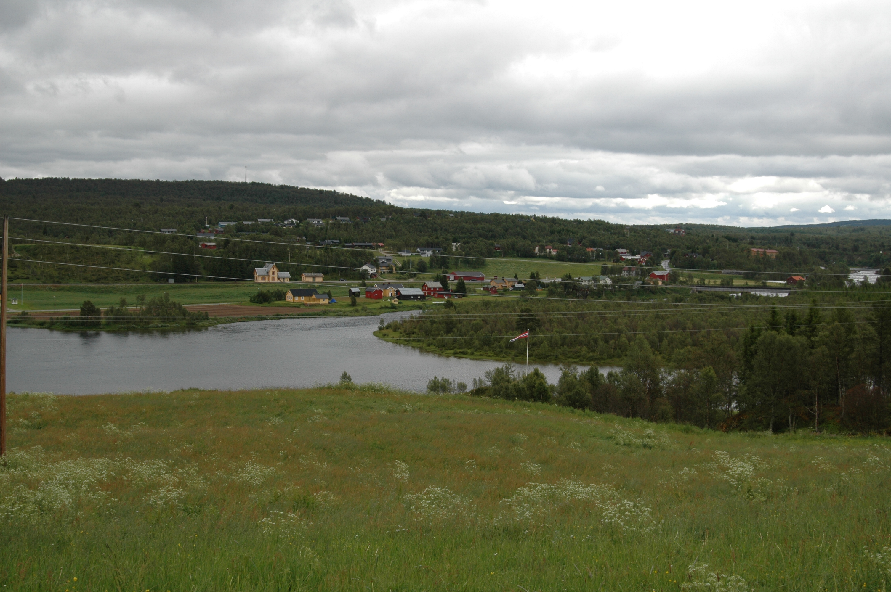 View over Glåmos